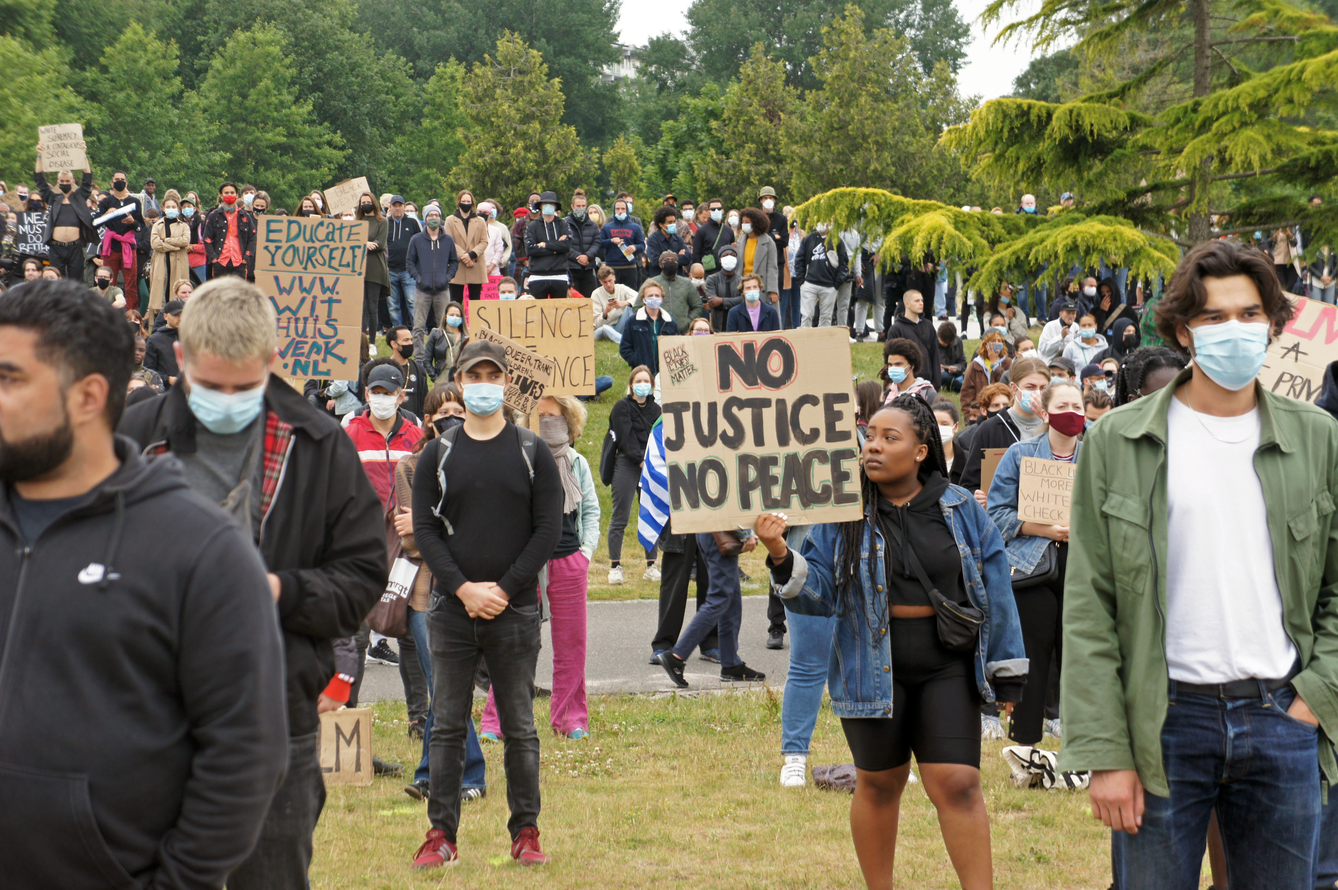 Black Lives Matter solidarity protest in Nelson Mandela Park, Bijlmer, Amsterdam, Netherlands on June 10, 2020